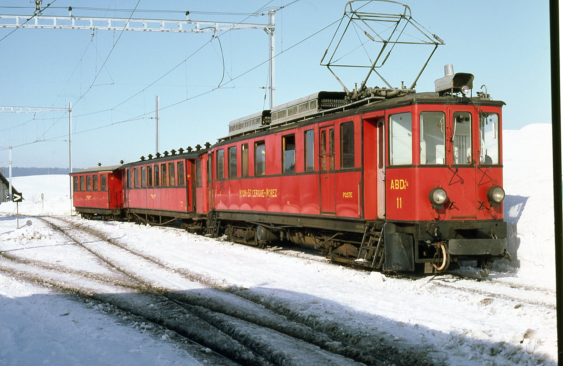 Narrow gauge railway Nyon–Saint-Cergue–La Cure (between 1975 and 1985)